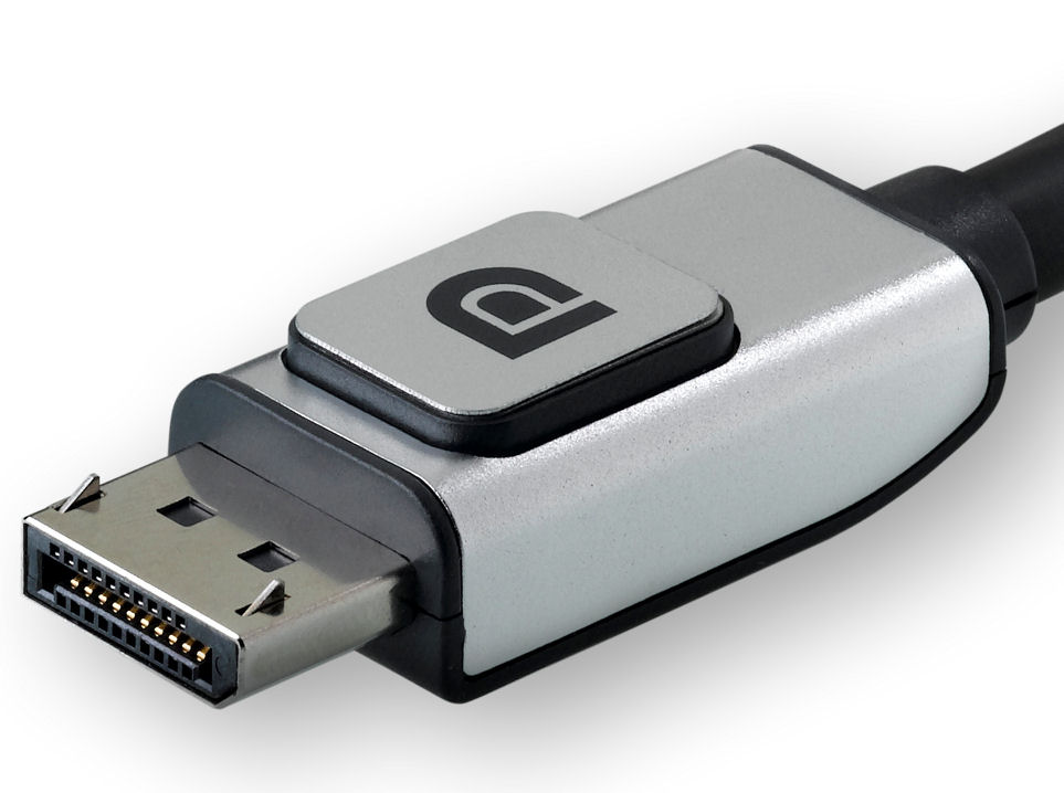 DisplayPort connector